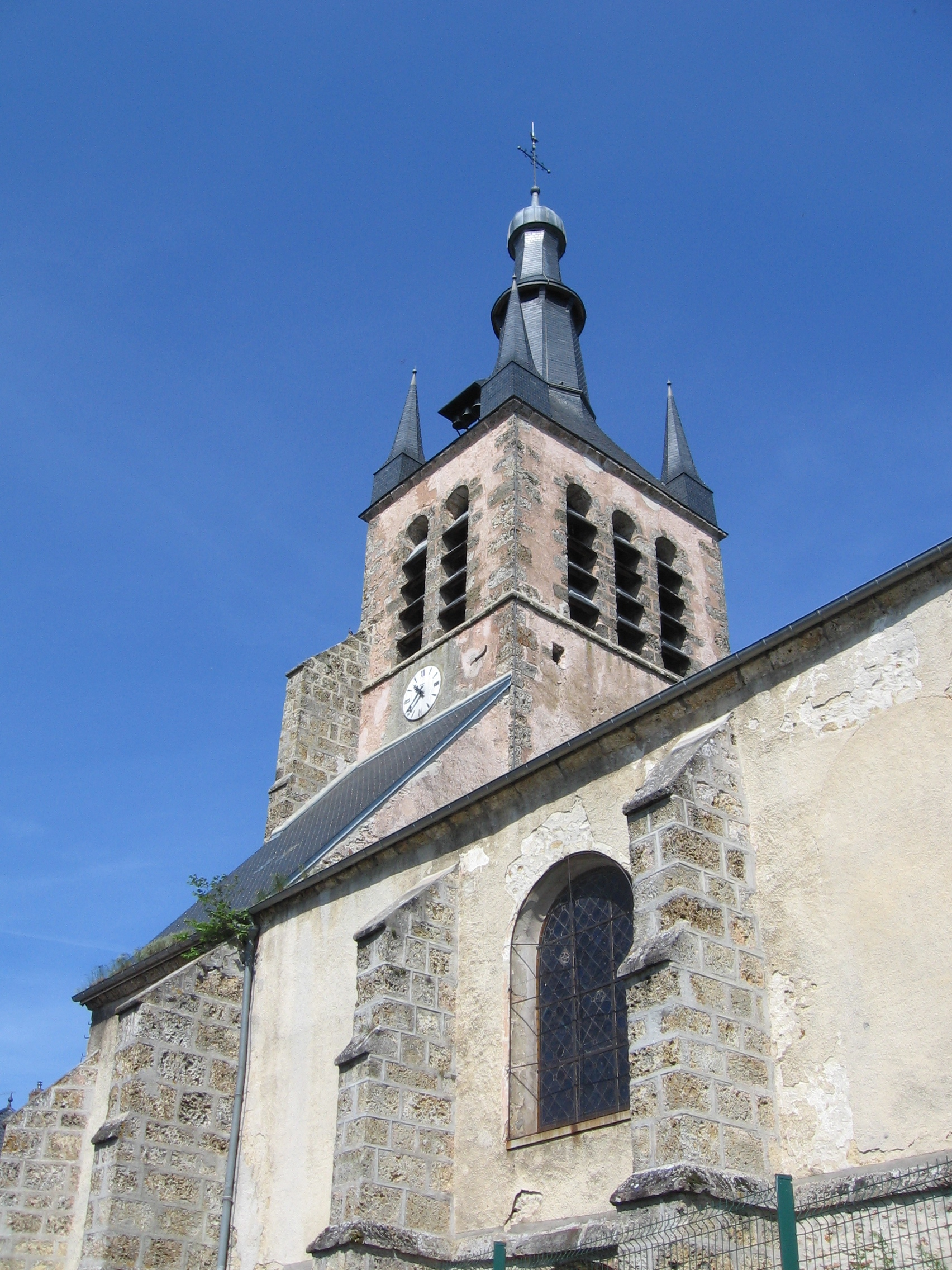 The Saint Martin's Church, Saint Martin d'Ablois, Marne, France